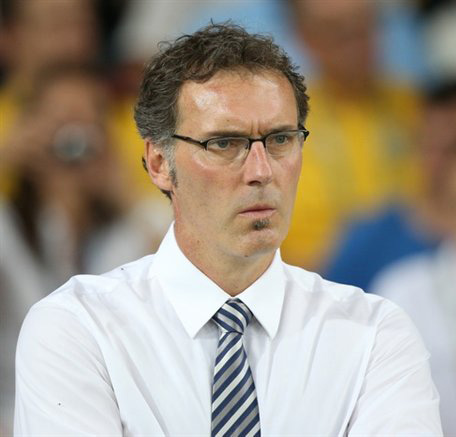 Laurent Blanc at the Euro 2012 match against Sweden